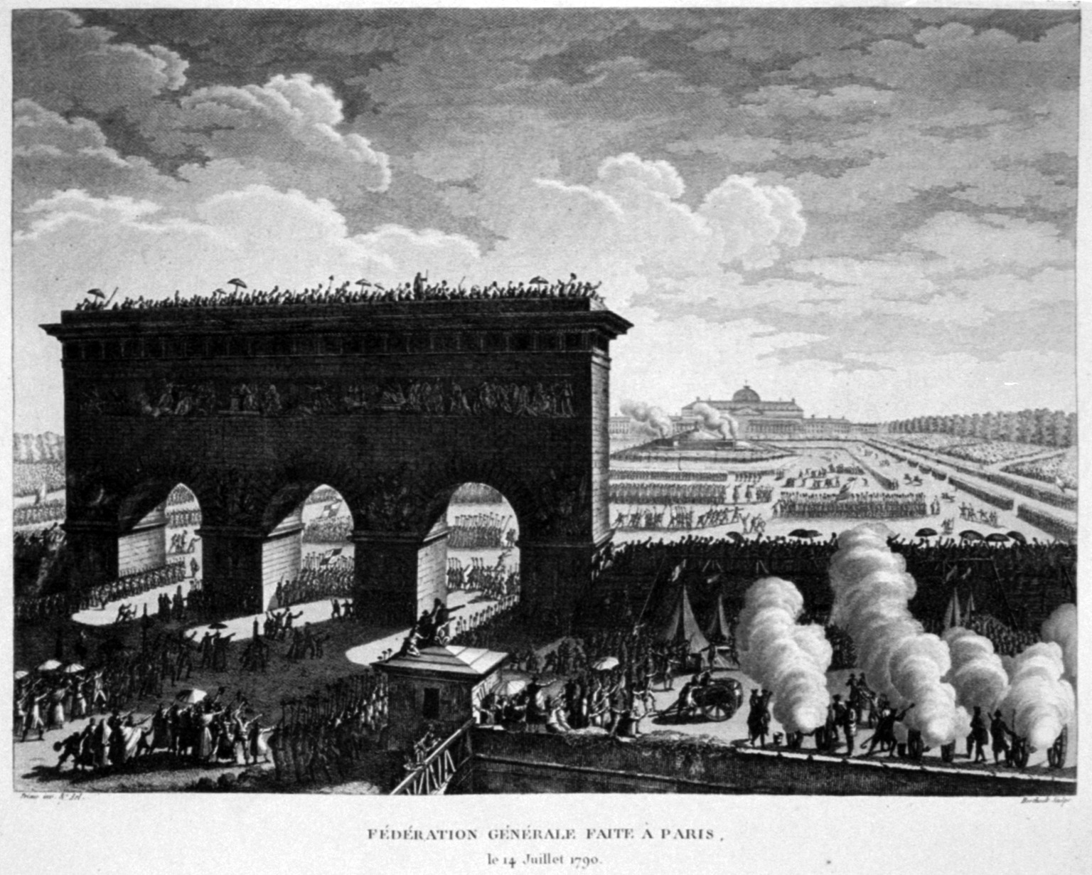 Fête de la Fédération, July 14, 1790. The first Festival of Federation, a celebration organized to commemorate the fall of the Bastille and to express French unity under the Revolution; triumphal arch, ceremonial altar on the Champ de Mars; crowds; Ecole Militaire in background. Engraving (plate no. 39) published in Collection complète des tableaux historiques de la révolution francaise. Paris : chez Auber, 1804.